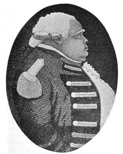 Portrait of British General James Grant (1720–1806) by Scottish caricaturist John Kay (1742–1826).